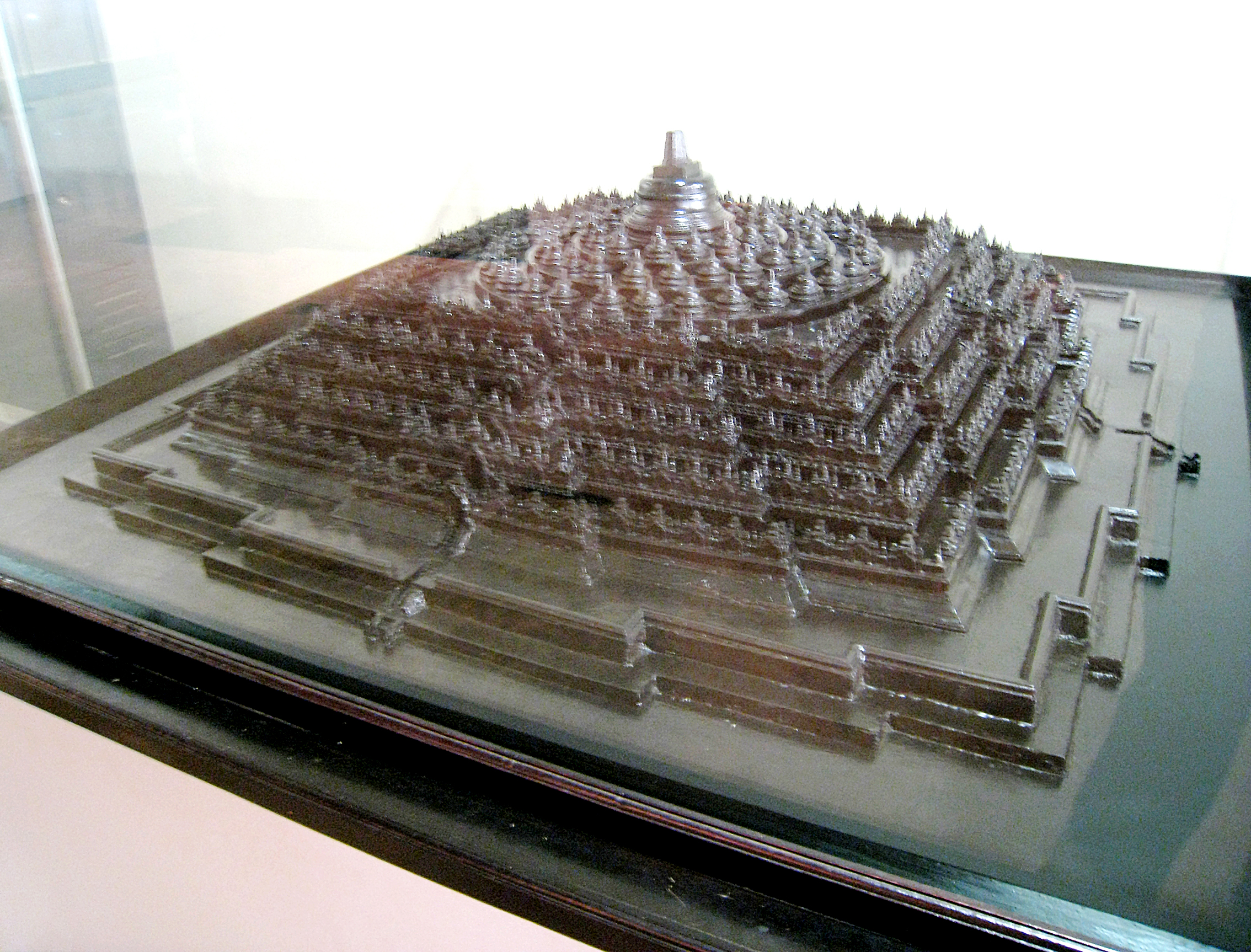 Borobudur architectural model, National Museum of Indonesia, Jakarta.